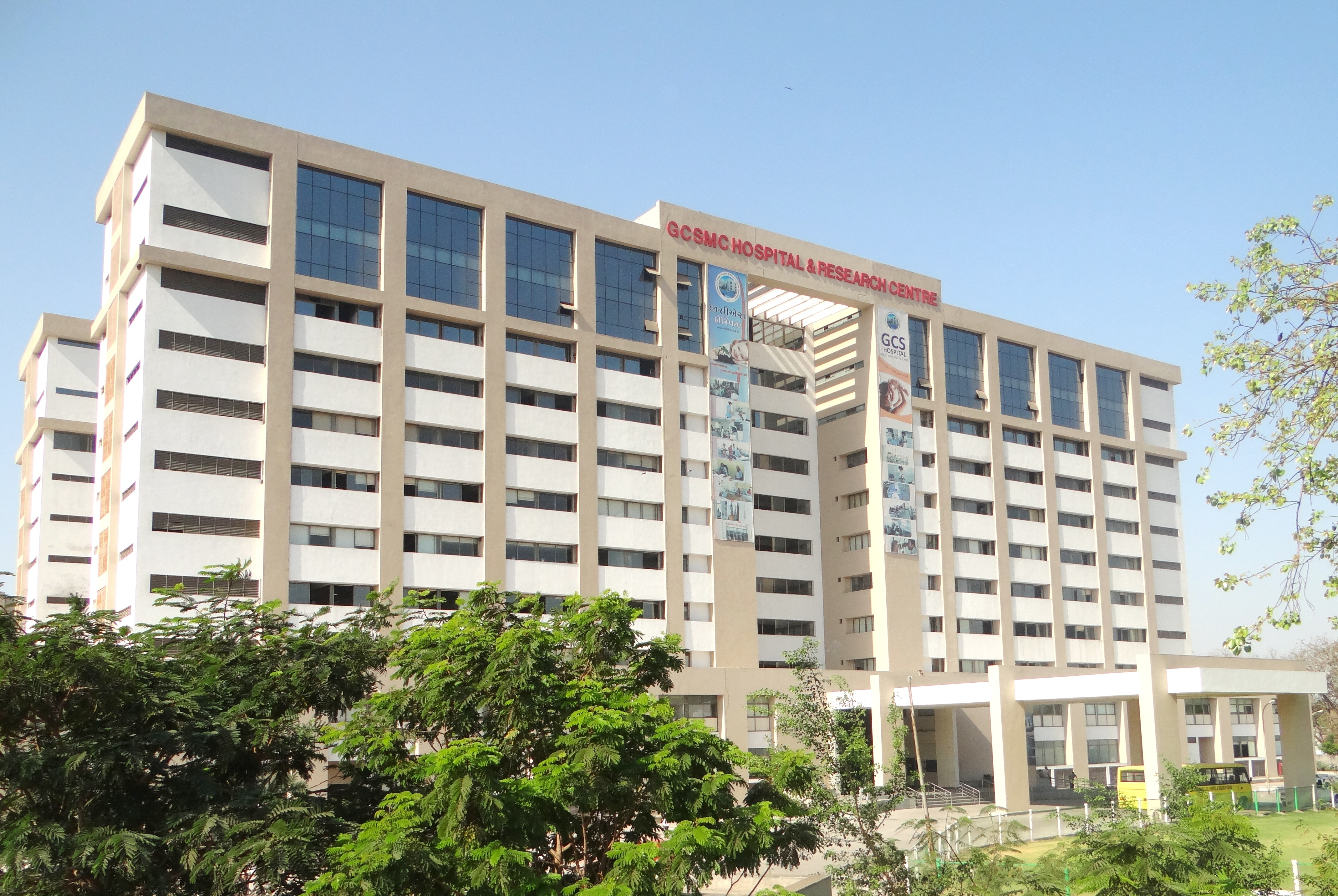 GCS Hospital Main Building